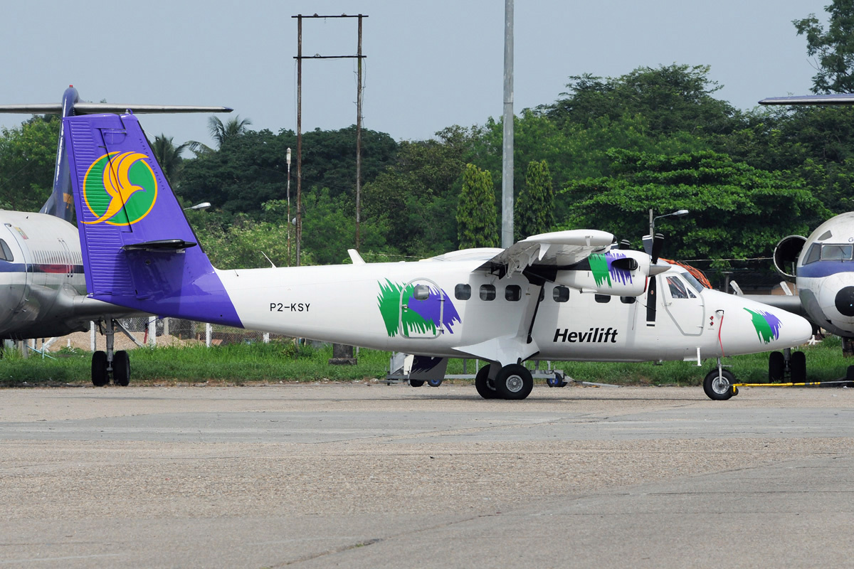 Hevilift De Havilland Canada (Viking) DHC-6-400 Twin Otter at Yangon International Airport